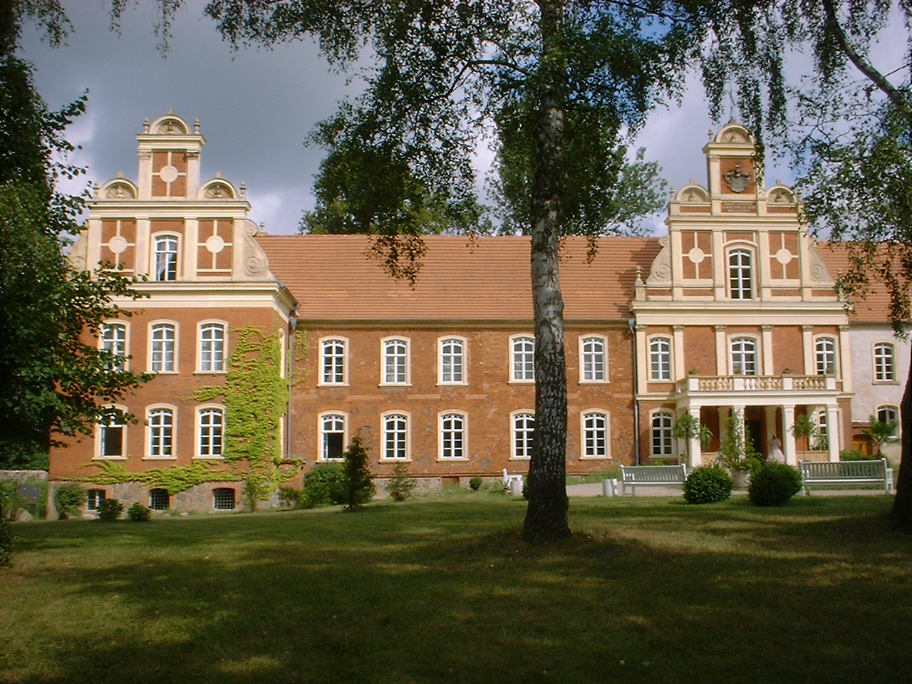 Palace in Meyenburg in Brandenburg, Germany